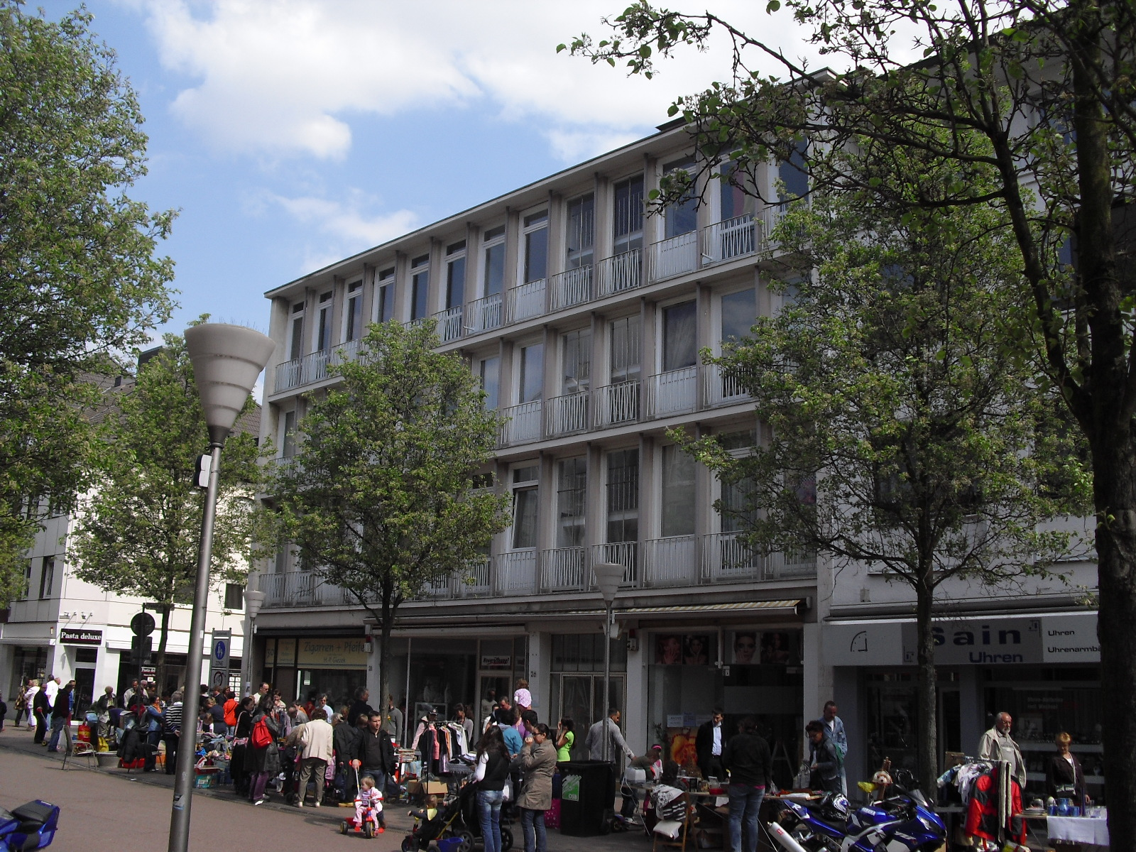 Das Eckhaus Zehnhofstr. 26-32/Kleine Zehnthofstraße in Düren